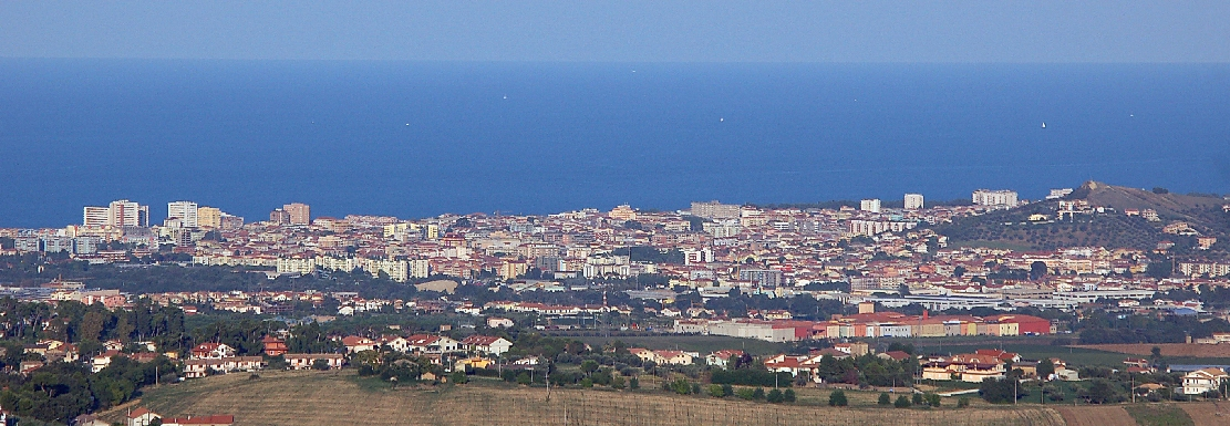 Montesilvano